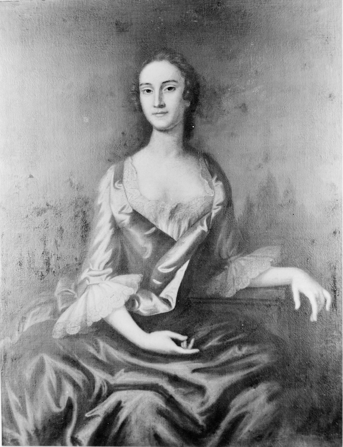 Title:Mrs. James Wardrop (Lettice Lee). Author/Artist:Wollaston, John, 1710-1775? Creation Date:1730 48 x 38 in. oil on canvas.